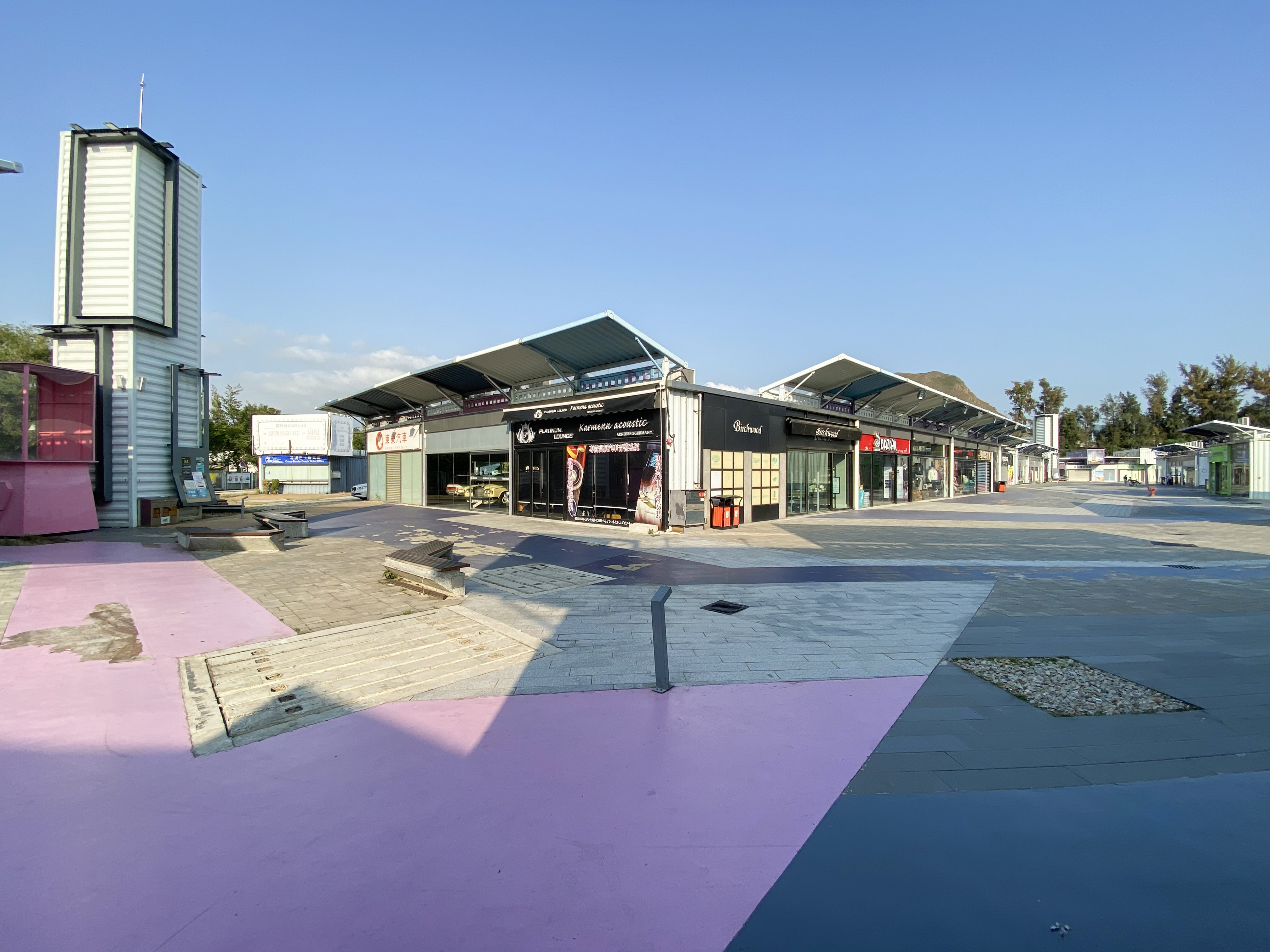 San Tin The Boxes